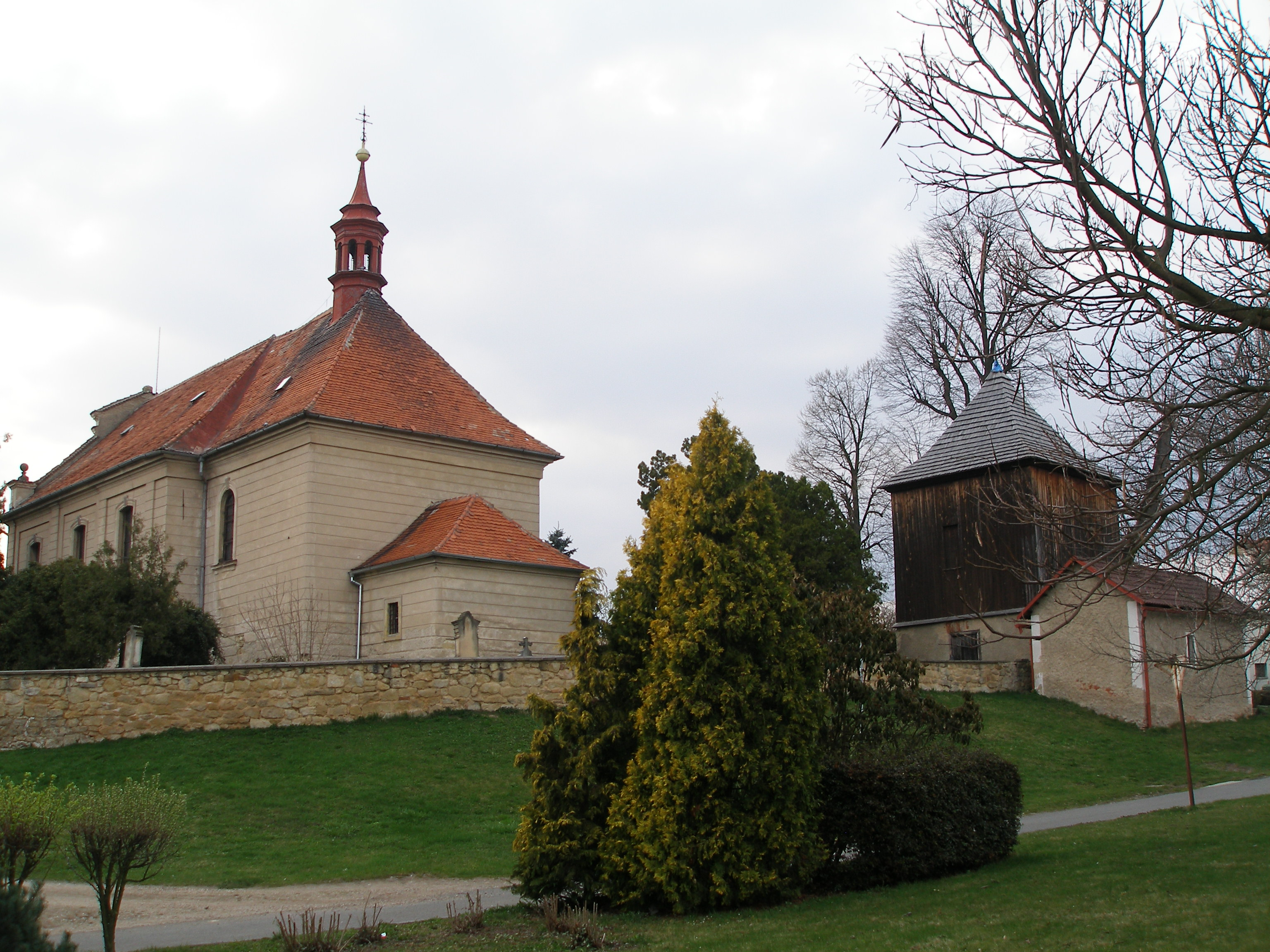 Saints Simon and Jude church in Plazy.